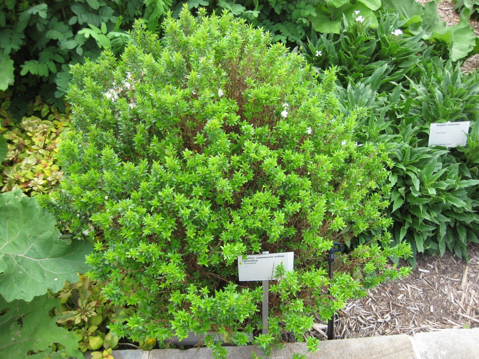 Photographed at the Royal Botanic Gardens Sydney (Australia) in January